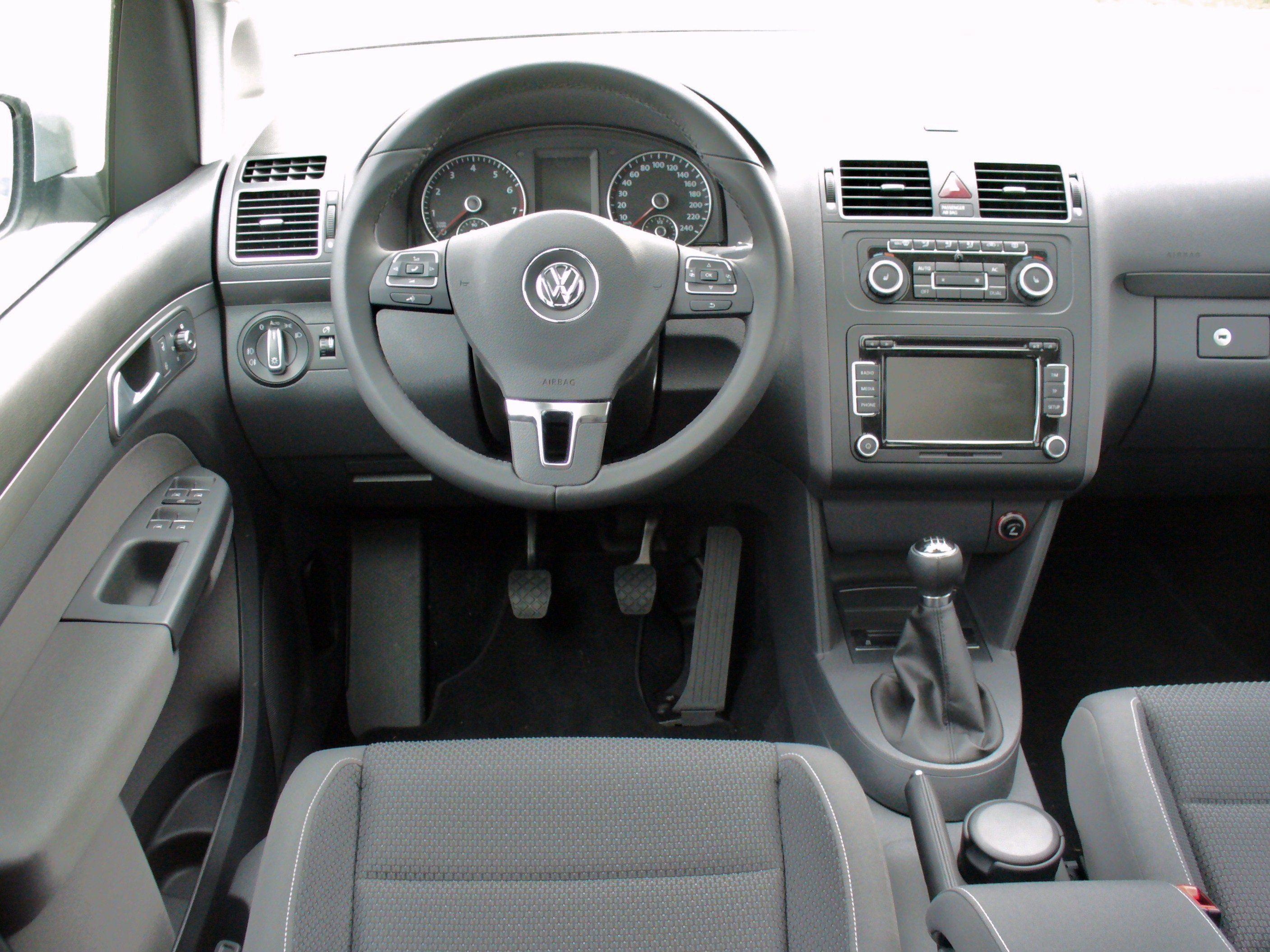 VW Touran Facelift II